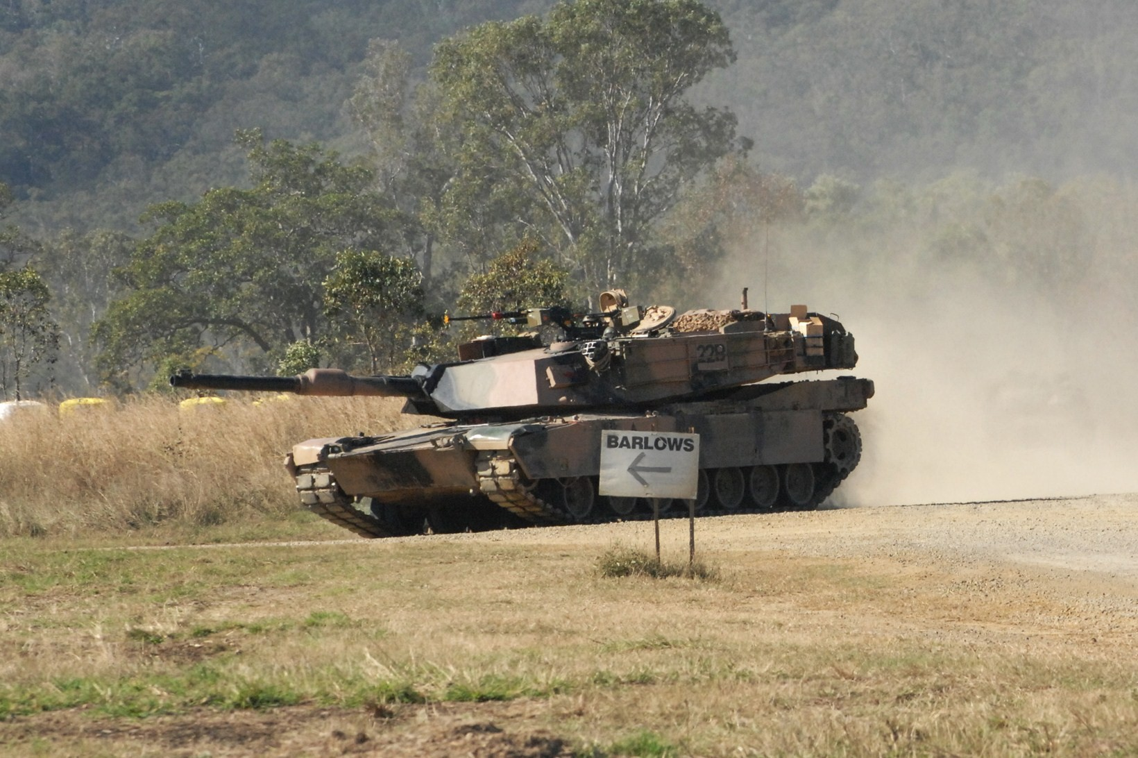 SHOALWATER BAY TRAINING AREA, Queensland, Australia - M1A1 Abrams Main Battle Tanks prepare to advance on enemy positions during Talisman Sabre 2011 19 July 2011. Talisman Sabre 2011 is an exercise designed to train U.S. and Australian forces to plan and conduct Combined Task Force operations to improve combat readiness and interoperability on a variety of missions from conventional conflict to peacekeeping and humanitarian assistance efforts.